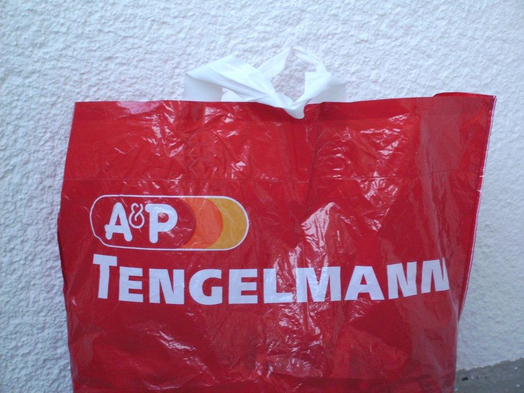 A&P Tengelmann bag